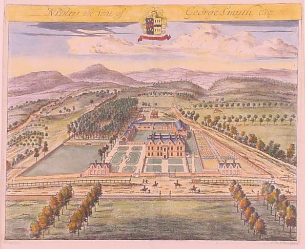 Copper engraving, 'Nibley the Seat of George Smyth, Esq.', from Britannia Illustrata, or Views of Several of the Queens Palaces also of the Principal Seats of the Nobility and Gentry of Great Britain (London, 1709)